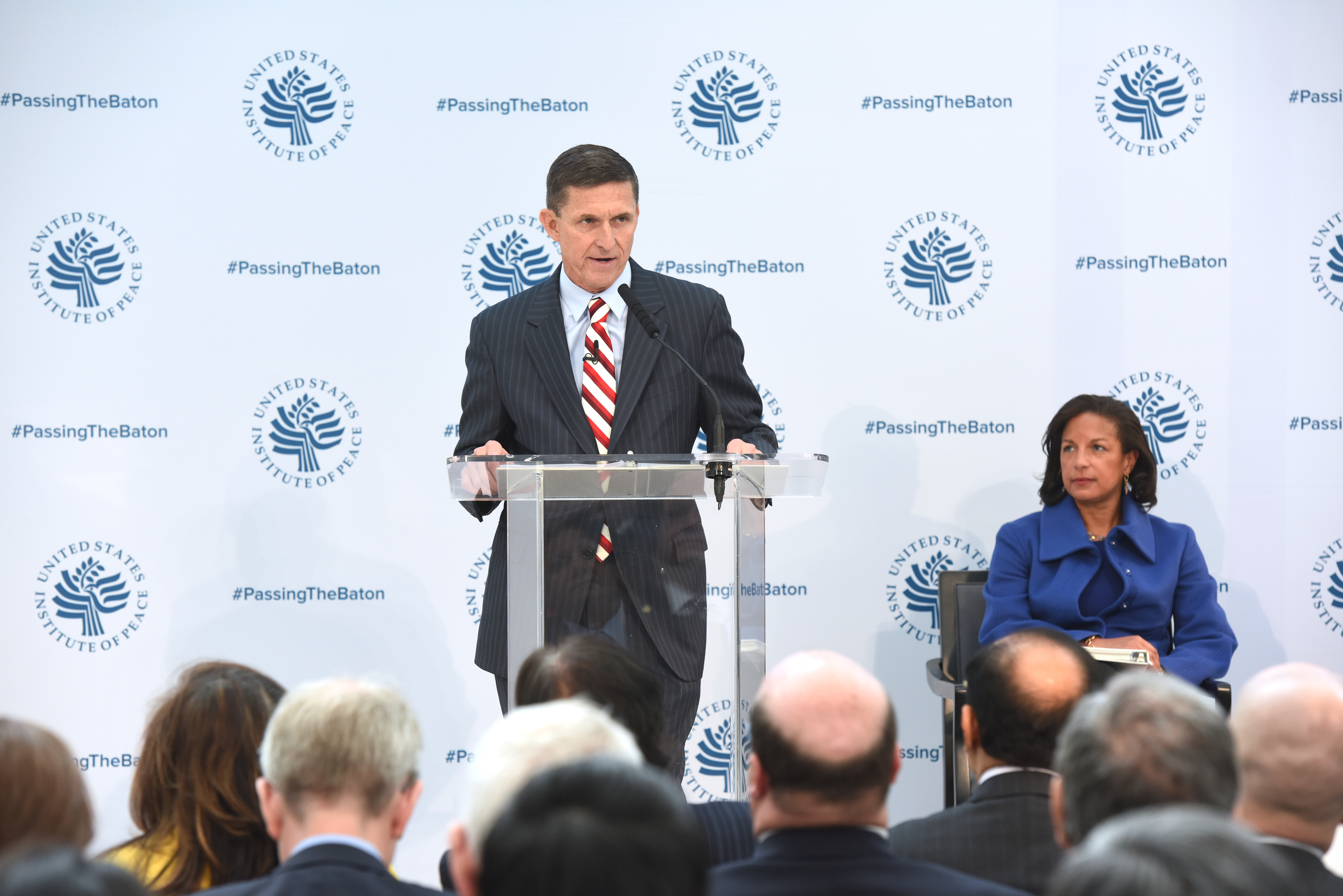 Lt. Gen. Flynn said that he intends to lead the National Security Council under an overarching policy of "peace through strength".